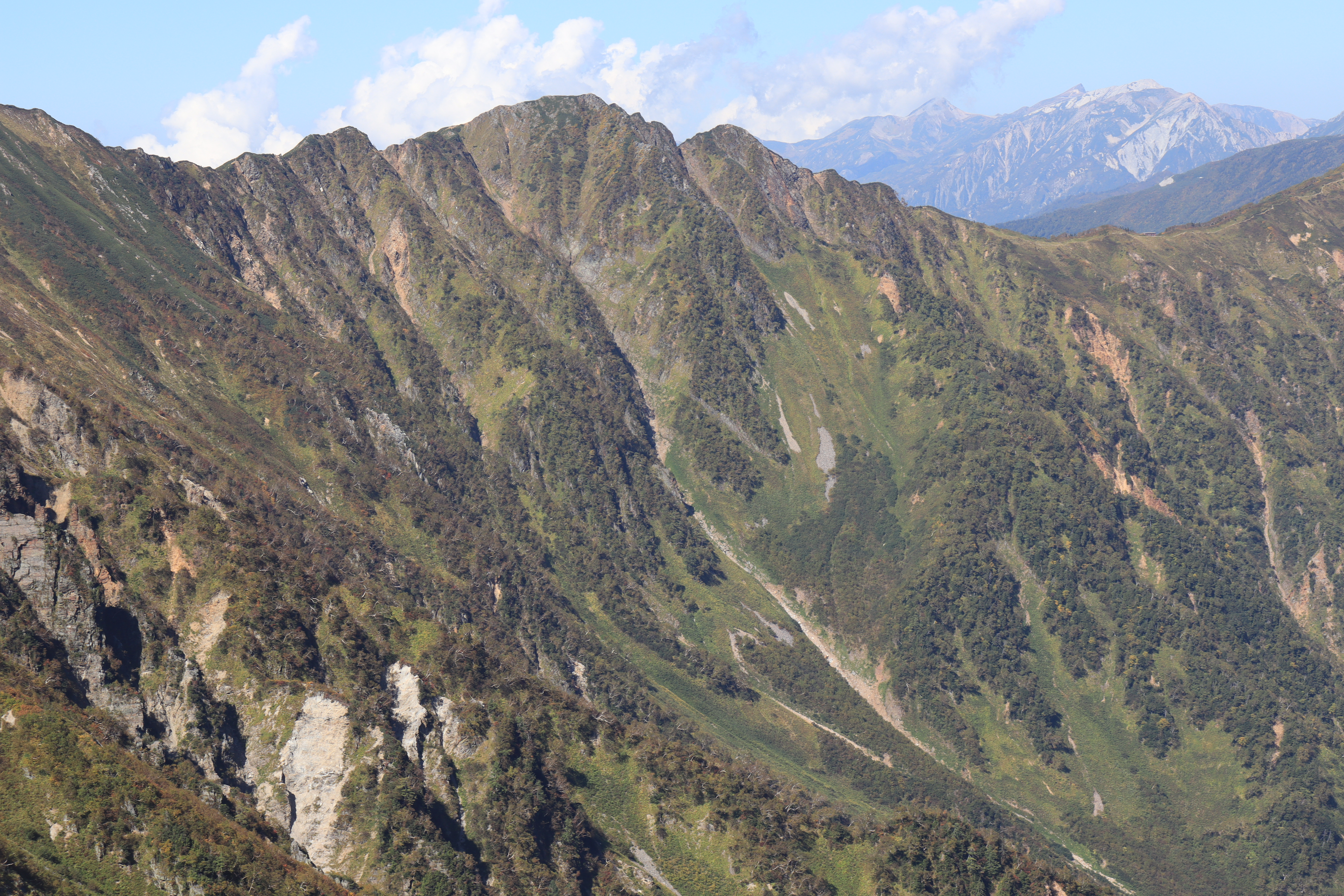 Mount Narusawa seen from Harinoki Pass in Ushirotateyama Mountains (Hida Mountains), Ōmachi, Nagano Prefecture, Japan.